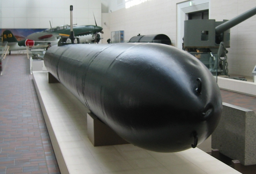 Kaiten Type 1. Tokyo Yasukuni War Memorial Museum. Personal photograph 2005.